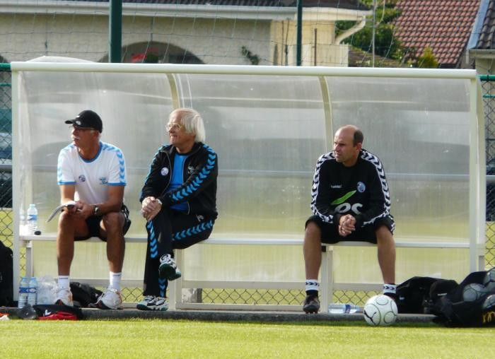 Pascal Janin, Gilbert Gress and Alexander Vencel